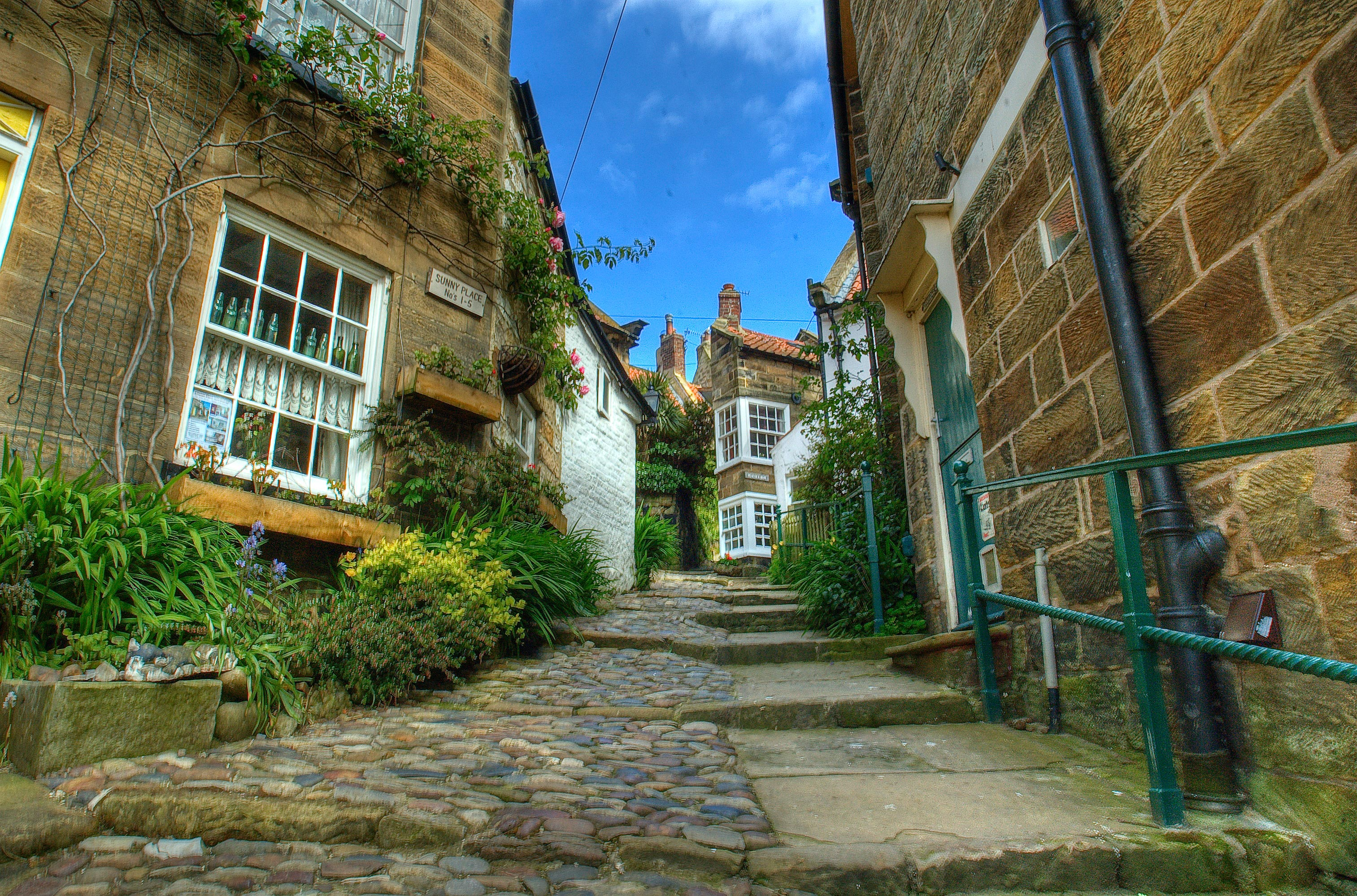 Robin Hoods Bay, Whitby